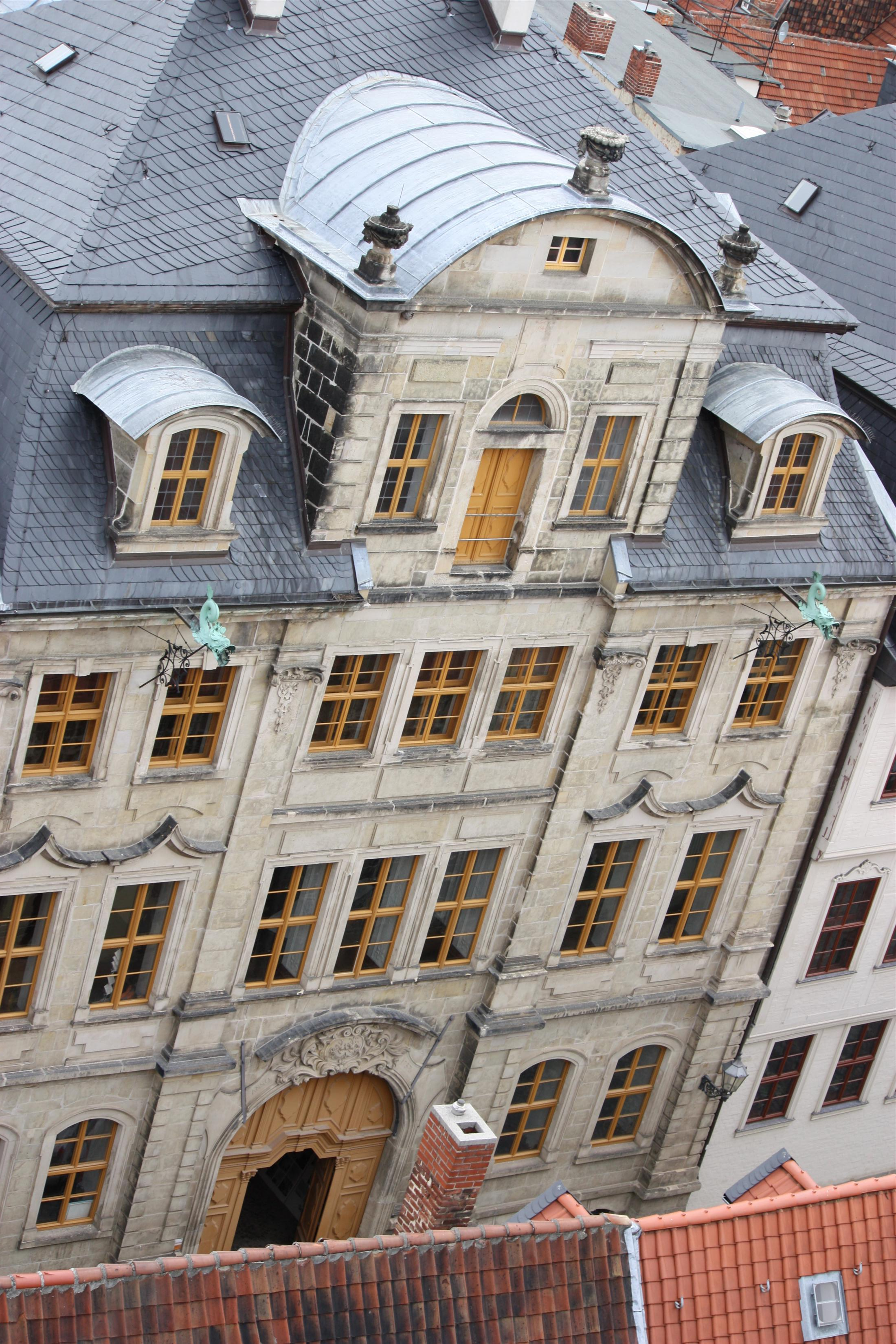 This is a photograph of an architectural monument.It is on the list of cultural monuments of Quedlinburg Kornmarkt 5